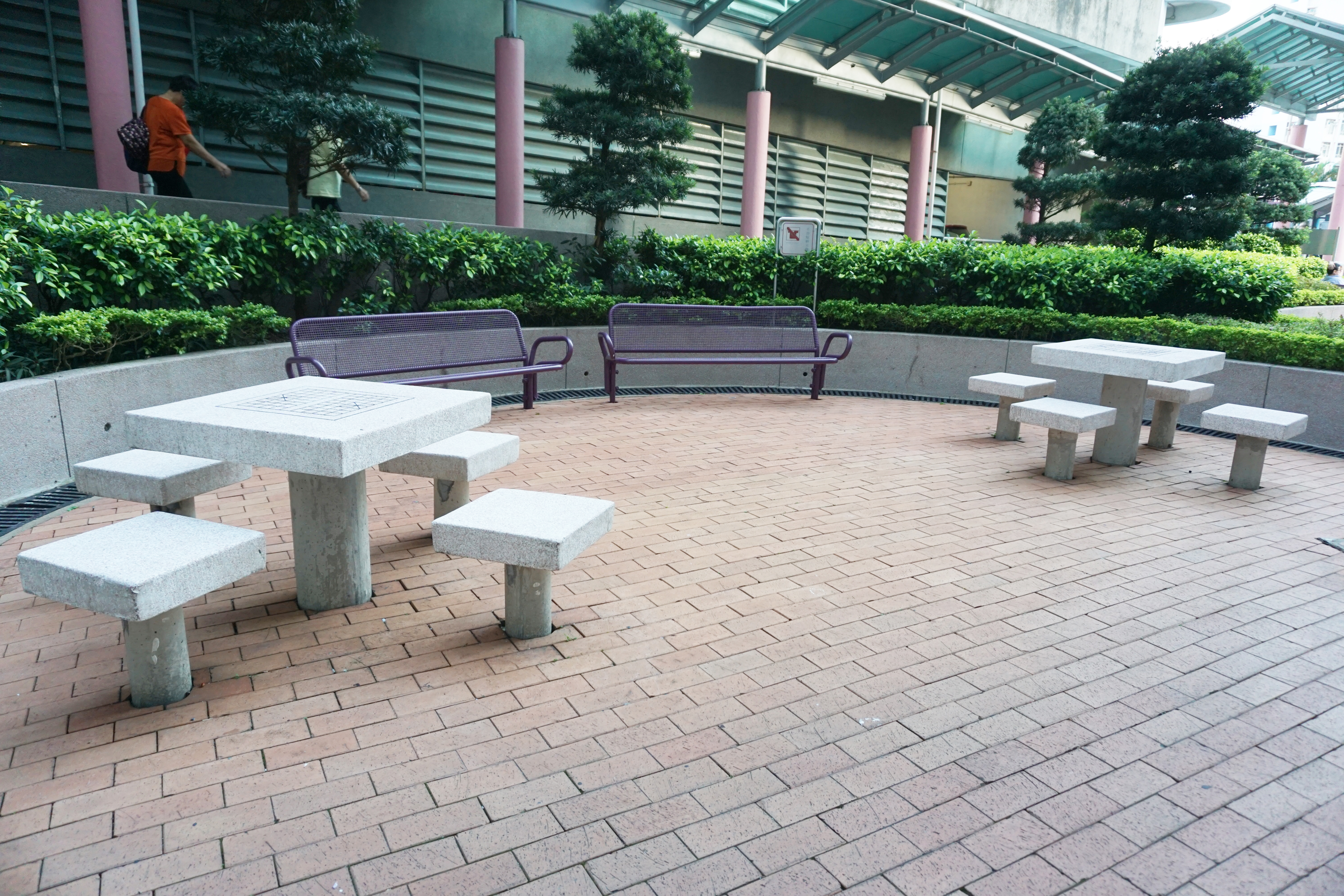 Tsz Oi Court in Tsz Wan Shan, Hong Kong.